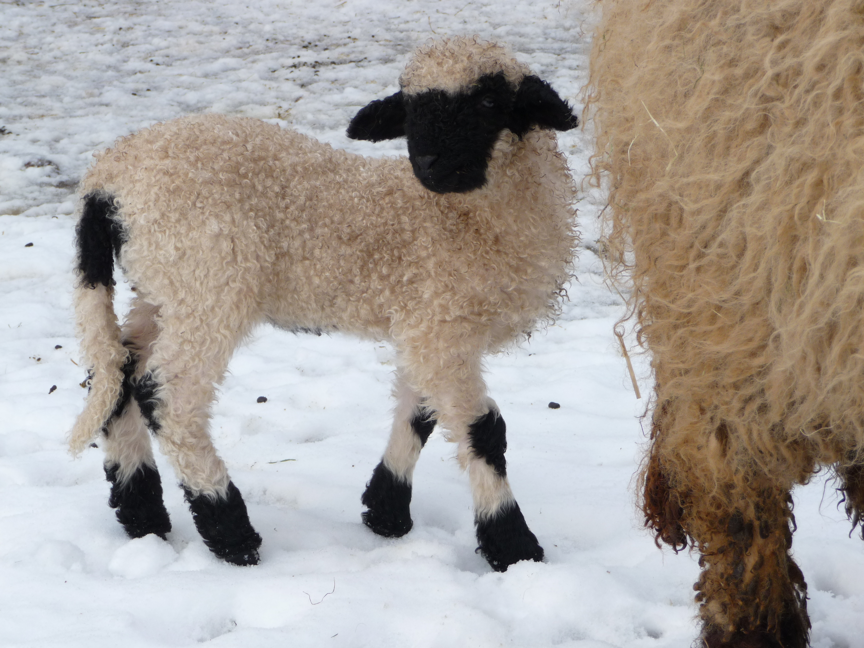 Valais Blacknose: A 10 days old lamb beneath it's mother